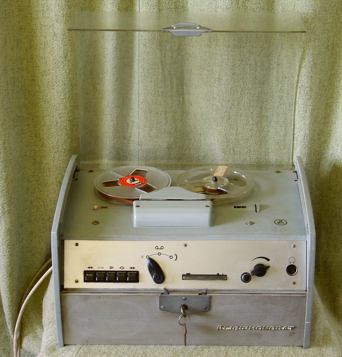 The Alibiphonomat tape-based answering machine, designed by Alois Zettler and approved by German Post in 1963 [1]. This is NOT the Alibiphon (the latter used a combination of disk and tape media, and was introduced earlier in 1957).